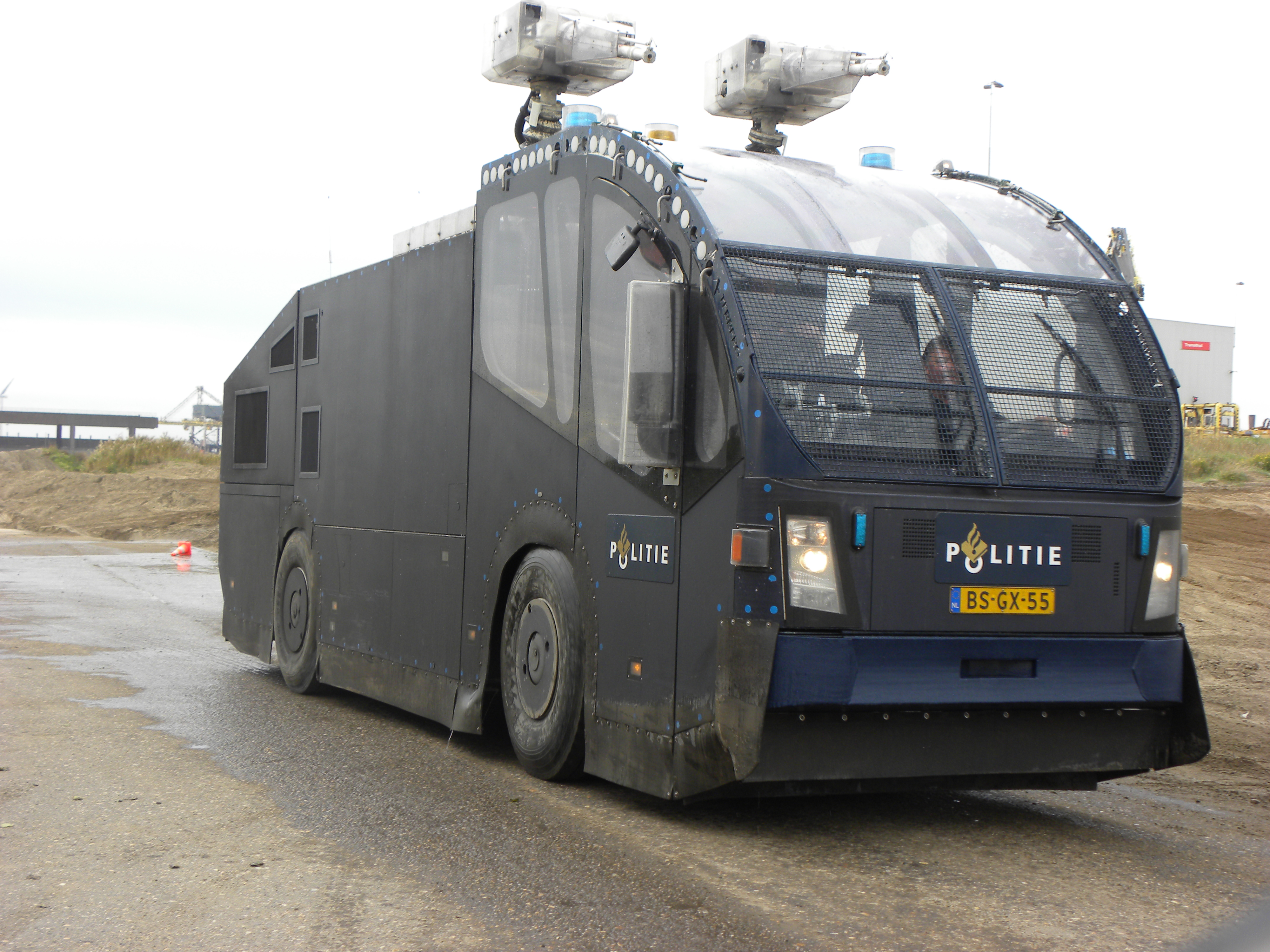 Dutch police riot controle water cannon truck, Waterwerper Politie